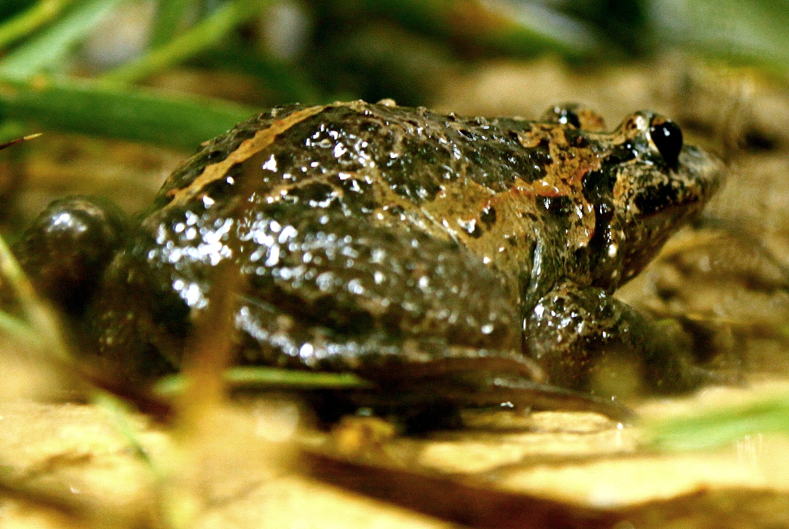 Israel painted frog female specimen that was found on 15 November 2011 at Lake Hula